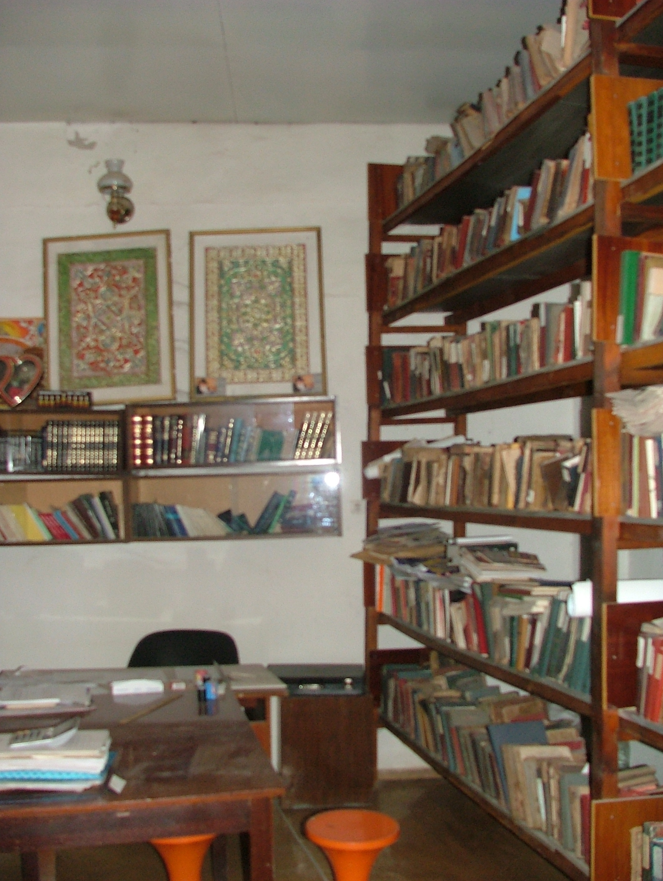 Demolished by the Tajik government in the summer of 2008.